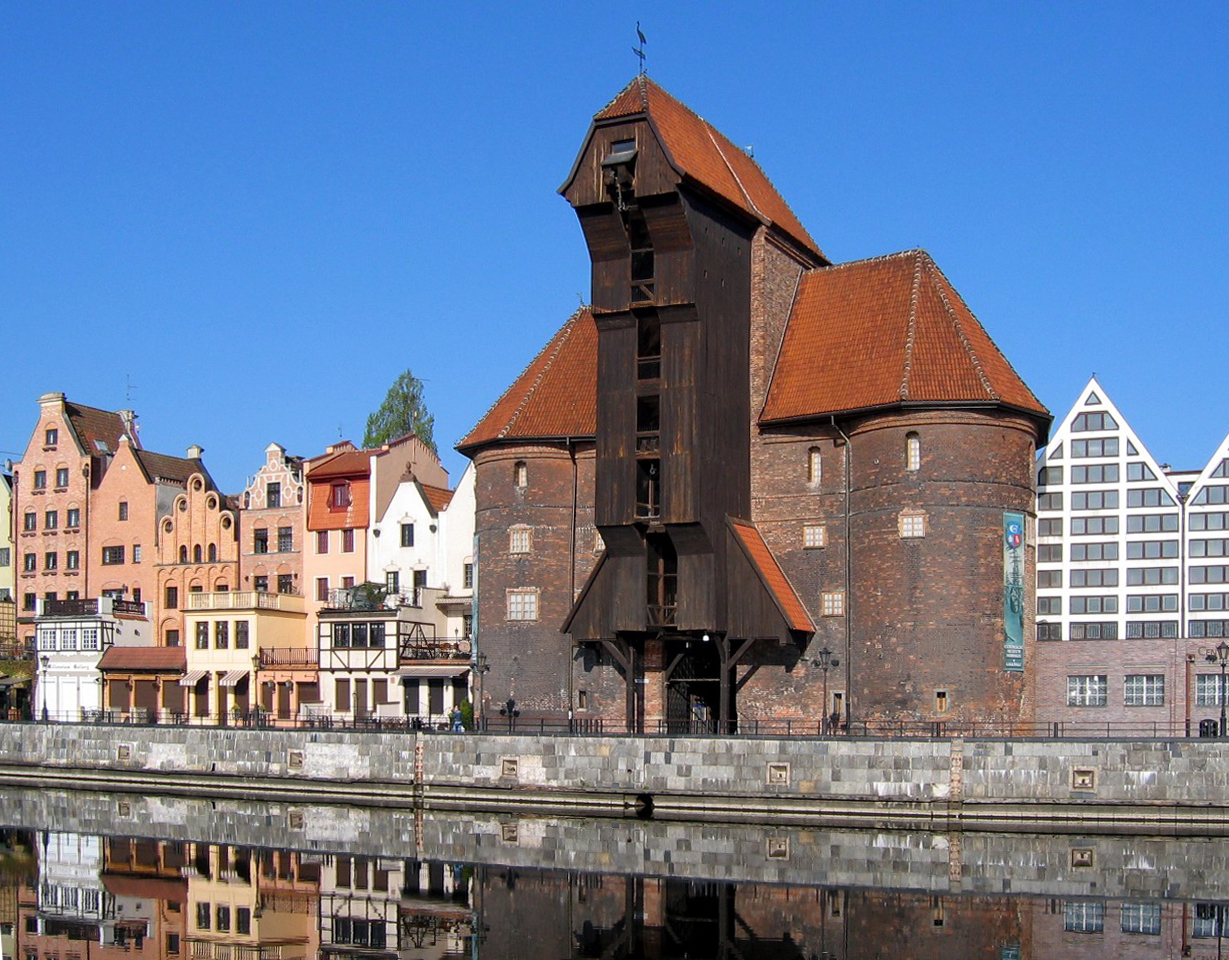 Crane Gate, Gdansk, Poland 2006